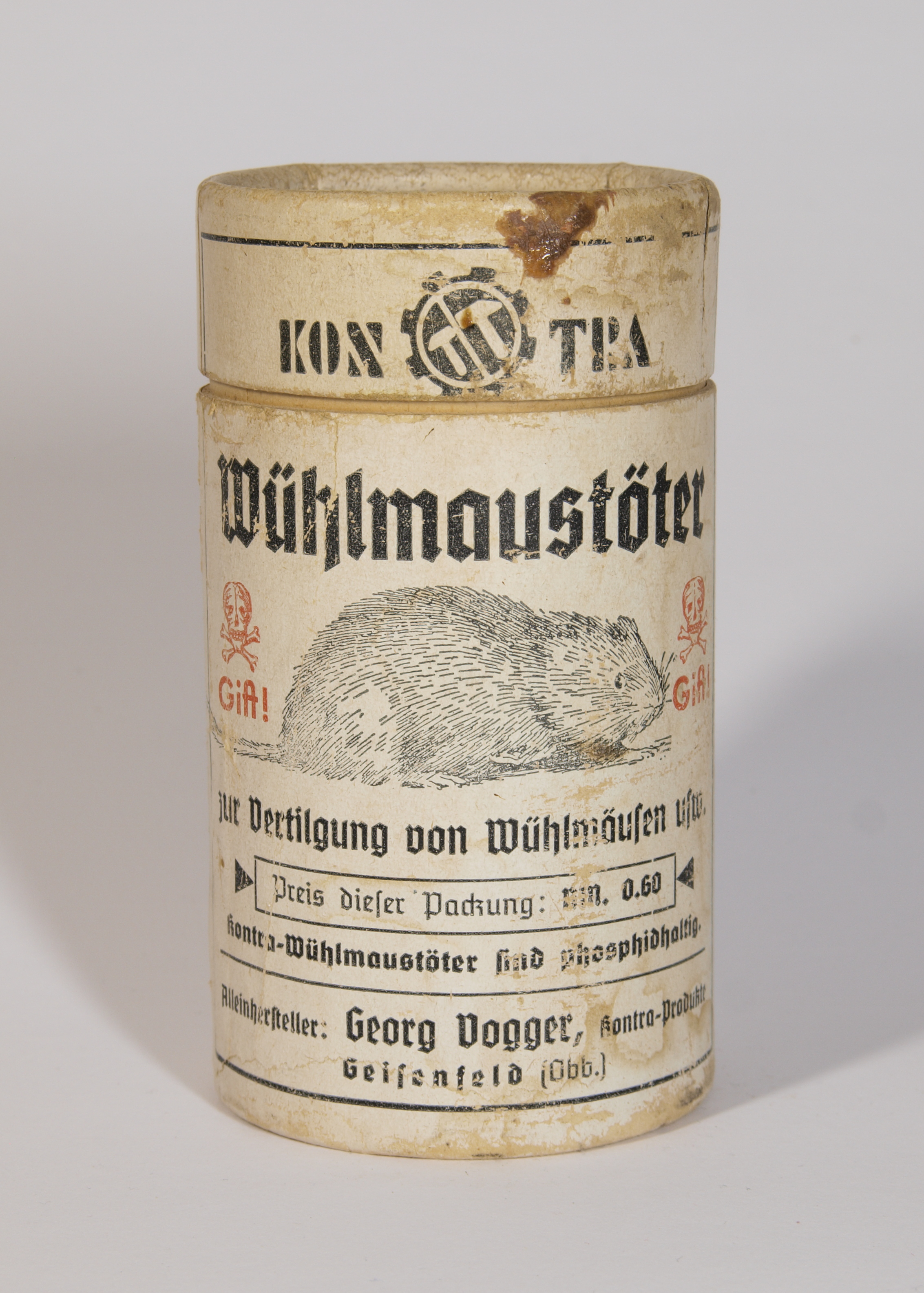 Phosphide rodenticide brand "KONTRA Wühlmaustöter" of company Georg Vogger, Geisenfeld, Oberbayern, Germany. Cardboard can with content. Made before 1940. Height: 113 mm (4.4 in); Diameter: 62 mm (2.4 in) Weight: 0.092 kg (0.20 lb)